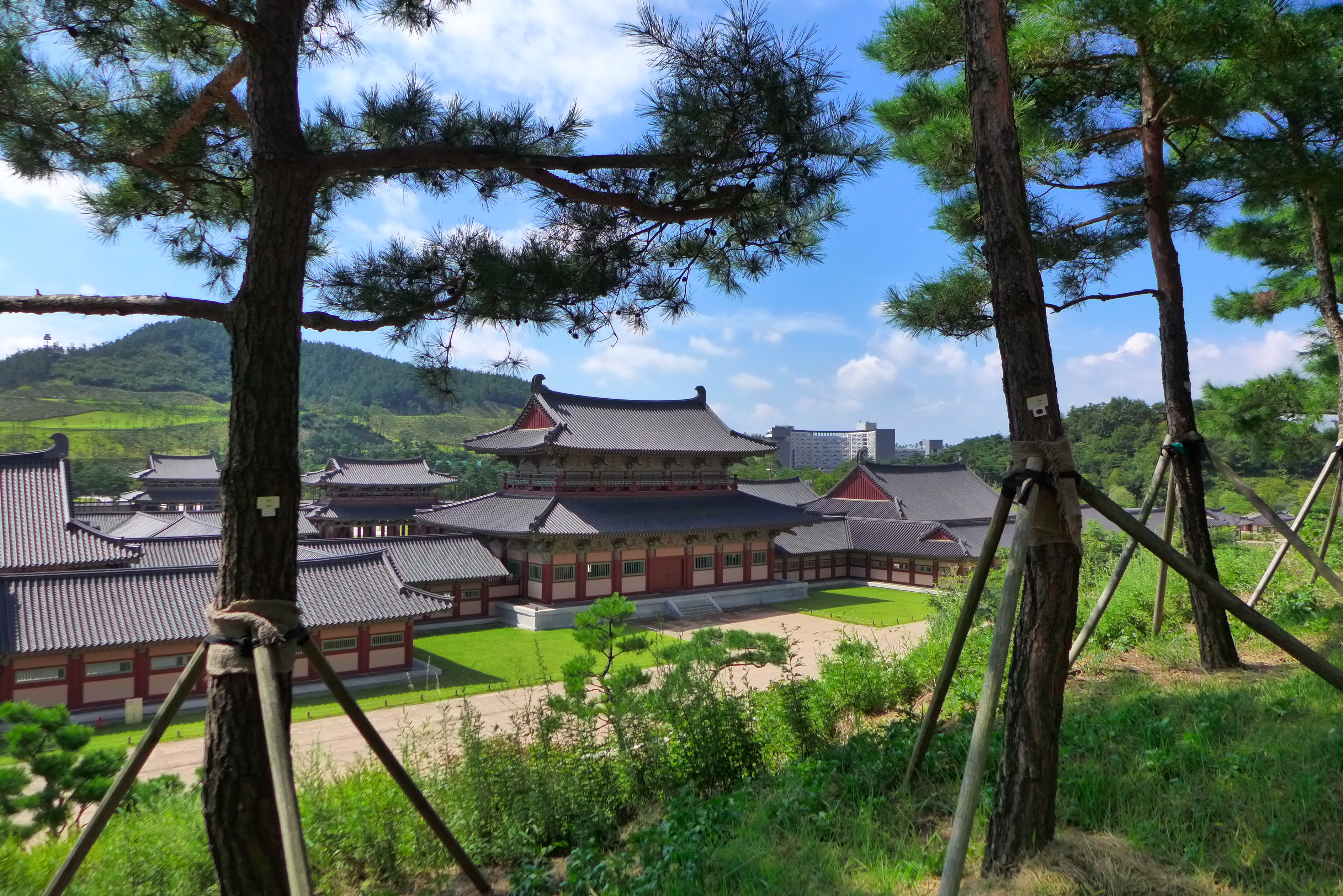 Baekje Cultural Land, Buyeo-gun, Chungcheongnam-do, South Korea